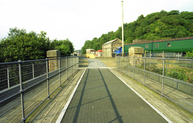 Meldon Viaduct The former track bed has been converted to a cycle path. The accommodation and buffet carriages can be seen at the right.